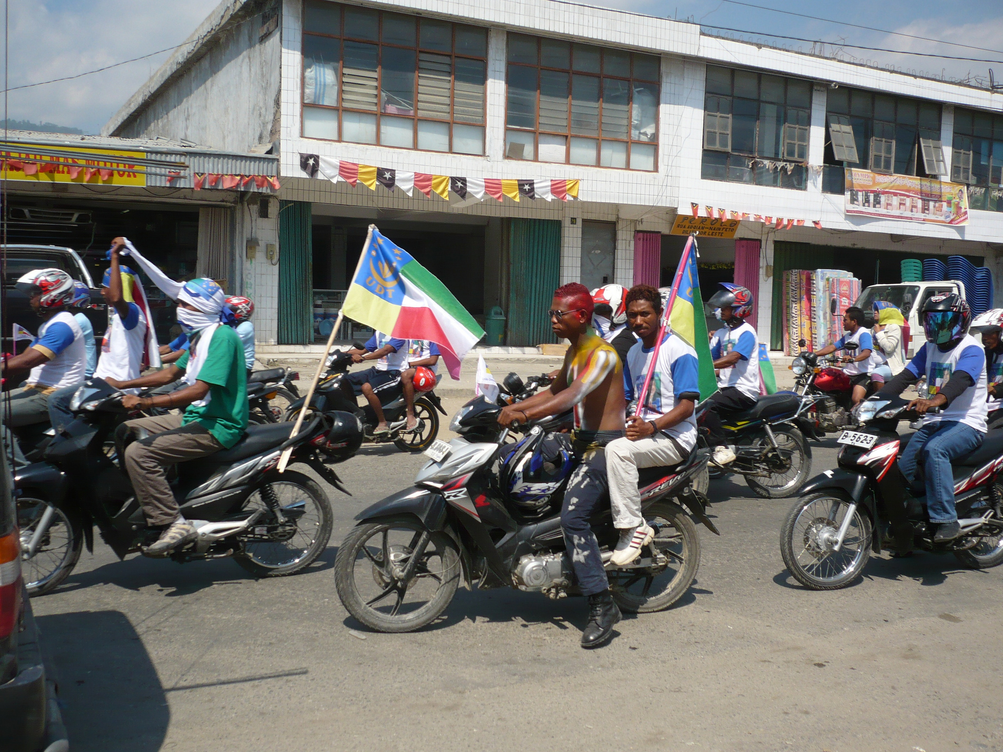 Timor-Leste political campaign: Campaign of a political party (UDT) in Dili, July 2012